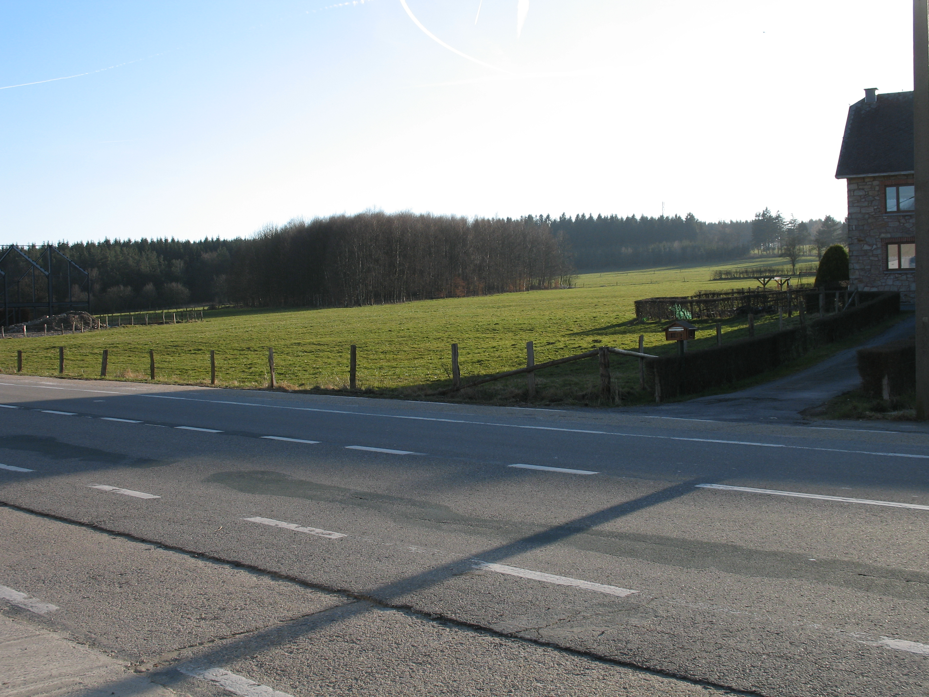 Location of the Malmedy massacre (situation in 2007).